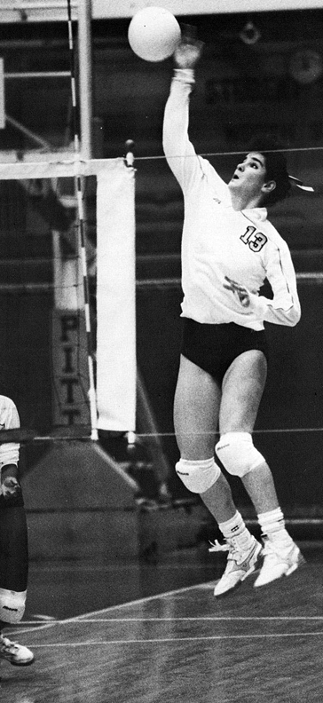 Denise Frawley was a two-time Honorable Mention All-American, 1987 Big East Conference Player of the Year, and 1988 Big East Tournament MVP for the University of Pittsburgh Panthers volleyball team from 1985 to 1988. Photo is from the 1987 season.